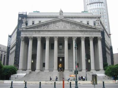 Photo of NYC Supreme Court at 60 Centre St.